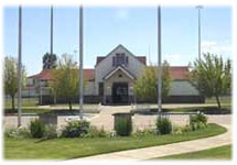 Photograph of the enterence into the Federal Correctional Institution in Sheridan, Oregon.